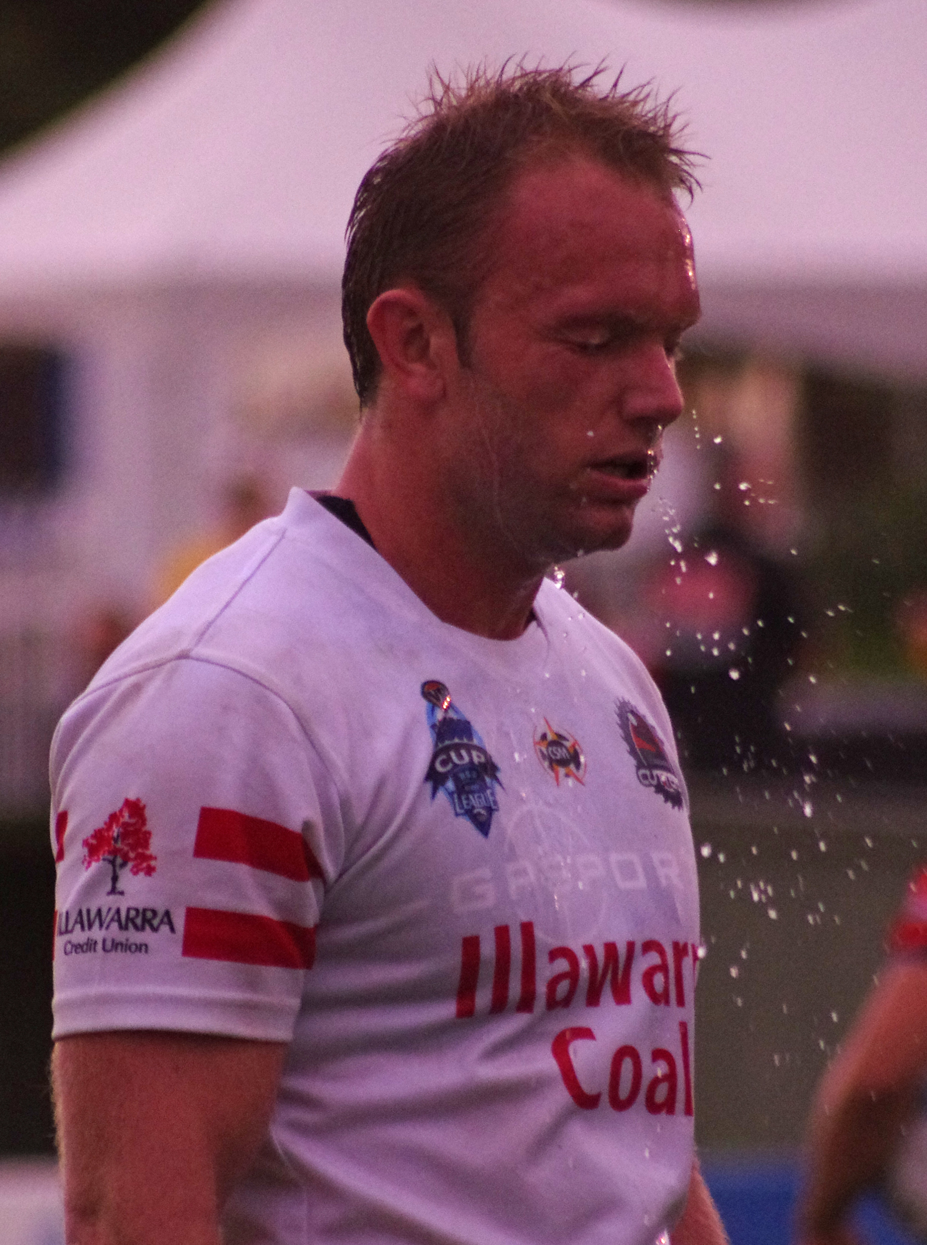 David Gower